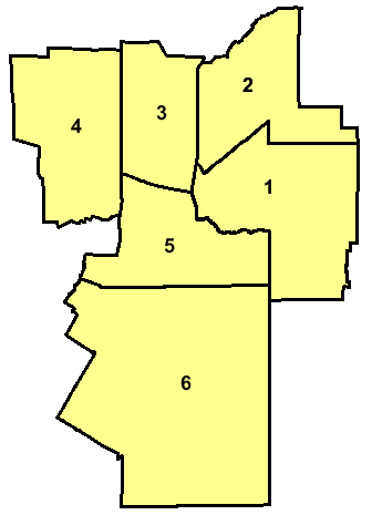 Map of Guelph wards used in the 1991, 1994, 1997, 2000 and 2003 municipal elections.